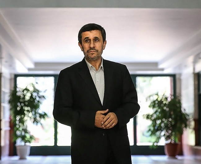 Mahmoud Ahmadinejad in his office as former President of Islamic Republic of Iran in Ladan complex